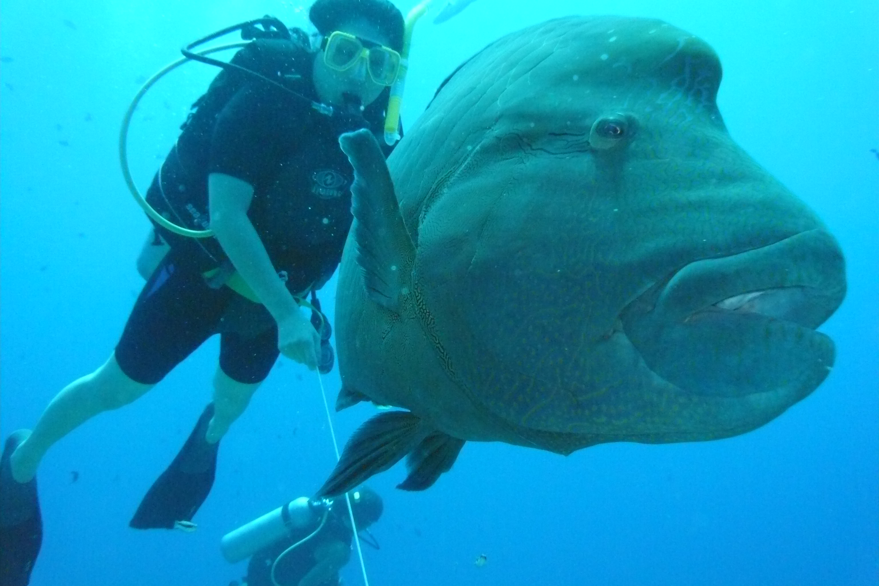 Diver and Napoleon fish/humphead wrasse (Cheilinus undulatus) at Blue Corner, Palau.